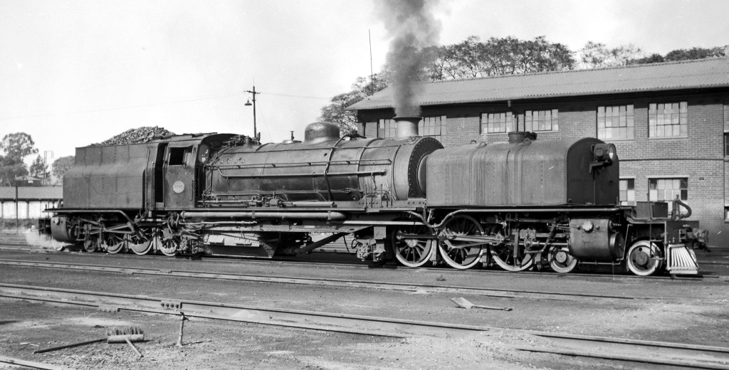 SAR Class GF 2427 (4-6-2+2-6-4) Location: Masons Mill Loco